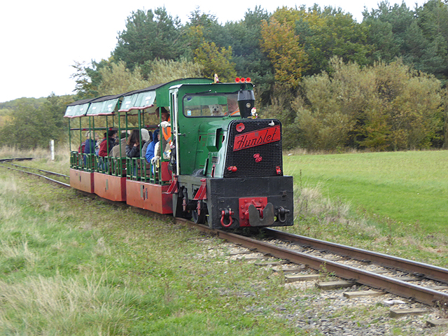 Narrow gauge railway at Woodhorn. A 2-foot gauge heritage railway runs for a little under 2 km from Woodhorn Museum to Lakeside Halt near the Premier Inn at the north end of the lake in Queen Elizabeth II Country Park. The "Hunslet" locomotive originally operated on a surface railway at Murton pit in County Durham.